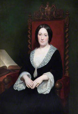 Julie Schwabe (1819–1896) - Froebel College, University of Roehampton; Supplied by The Public Catalogue Foundation